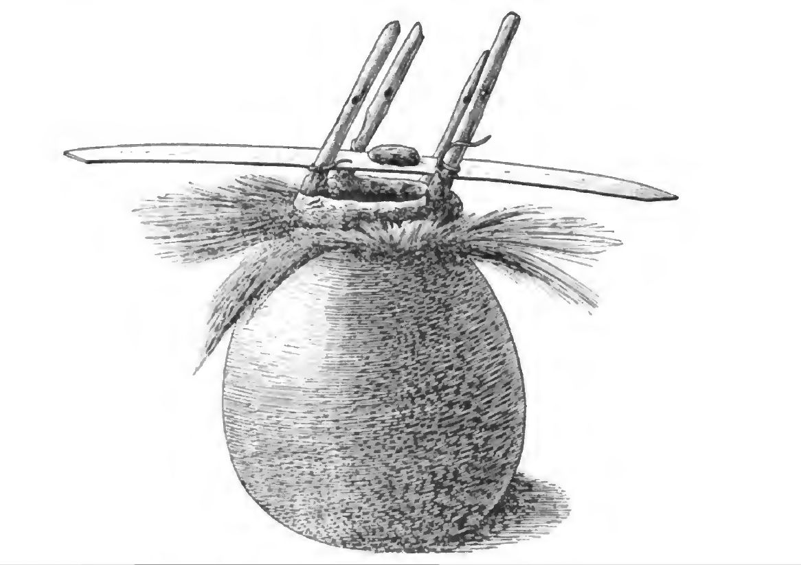 On-note xylophone "limba" of the Mangaraja people in Malawi, from Bernhard Ankermann: Die afrikanischen Musikinstrumente. Haack, Berlin 1901, p. 72